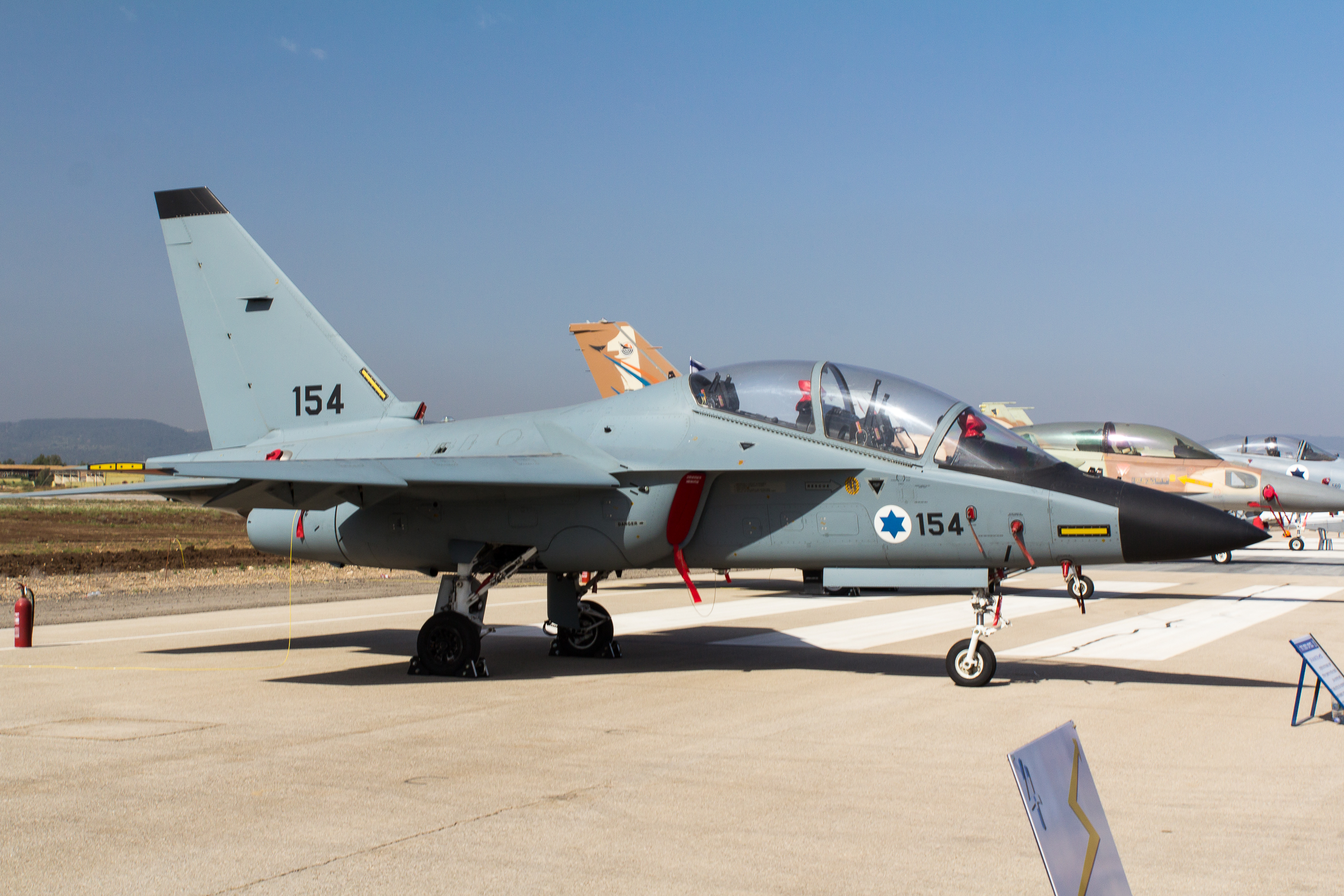 Alenia Aermacchi M-346 Lavi at the Israeli Air Force exhibition at Ramat David AFB on Israel's 69th Independence Day